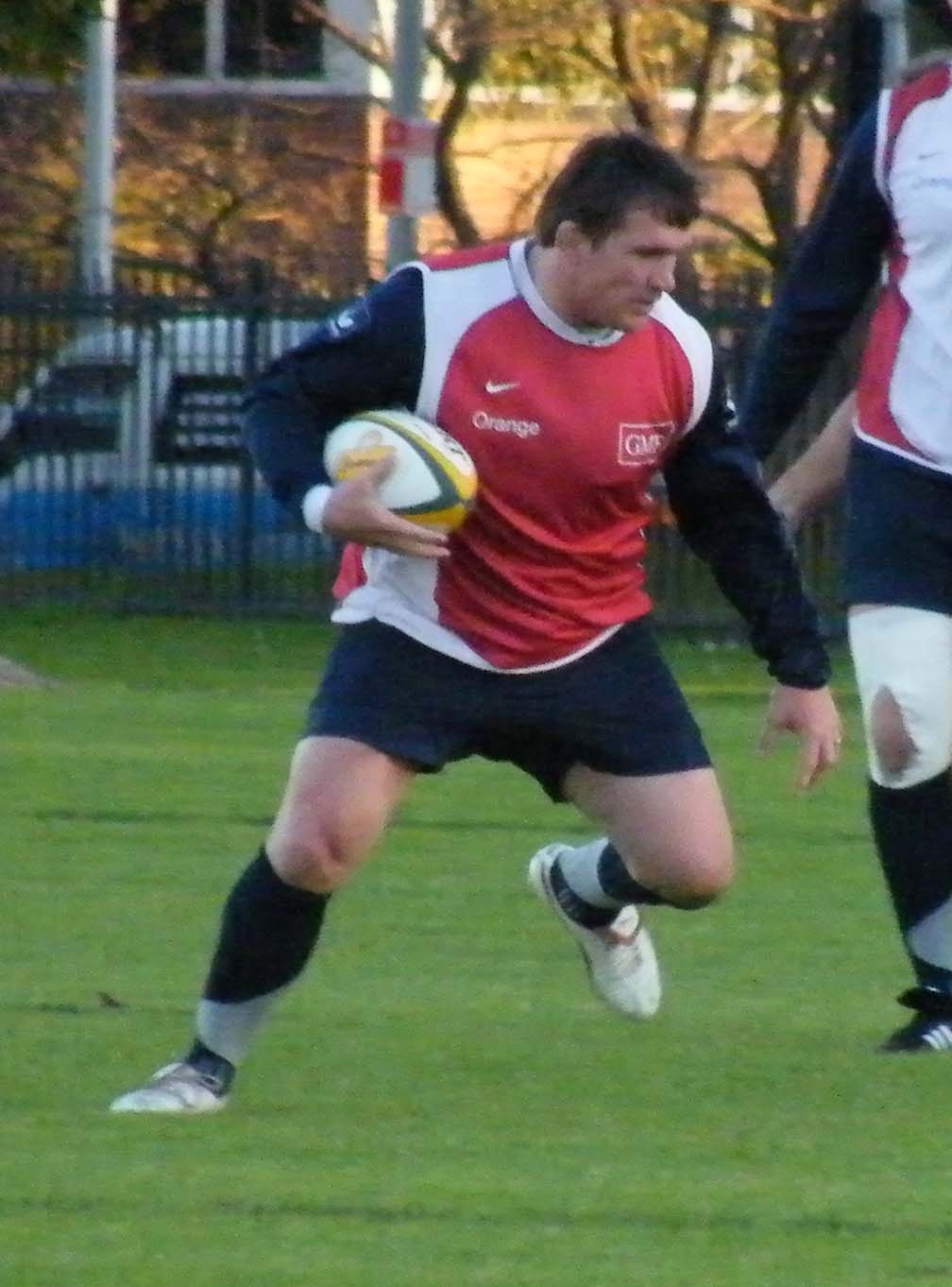 Sylvain Marconnet - French Rugby Union Training - Moore Park, Sydney 23 June 2009.